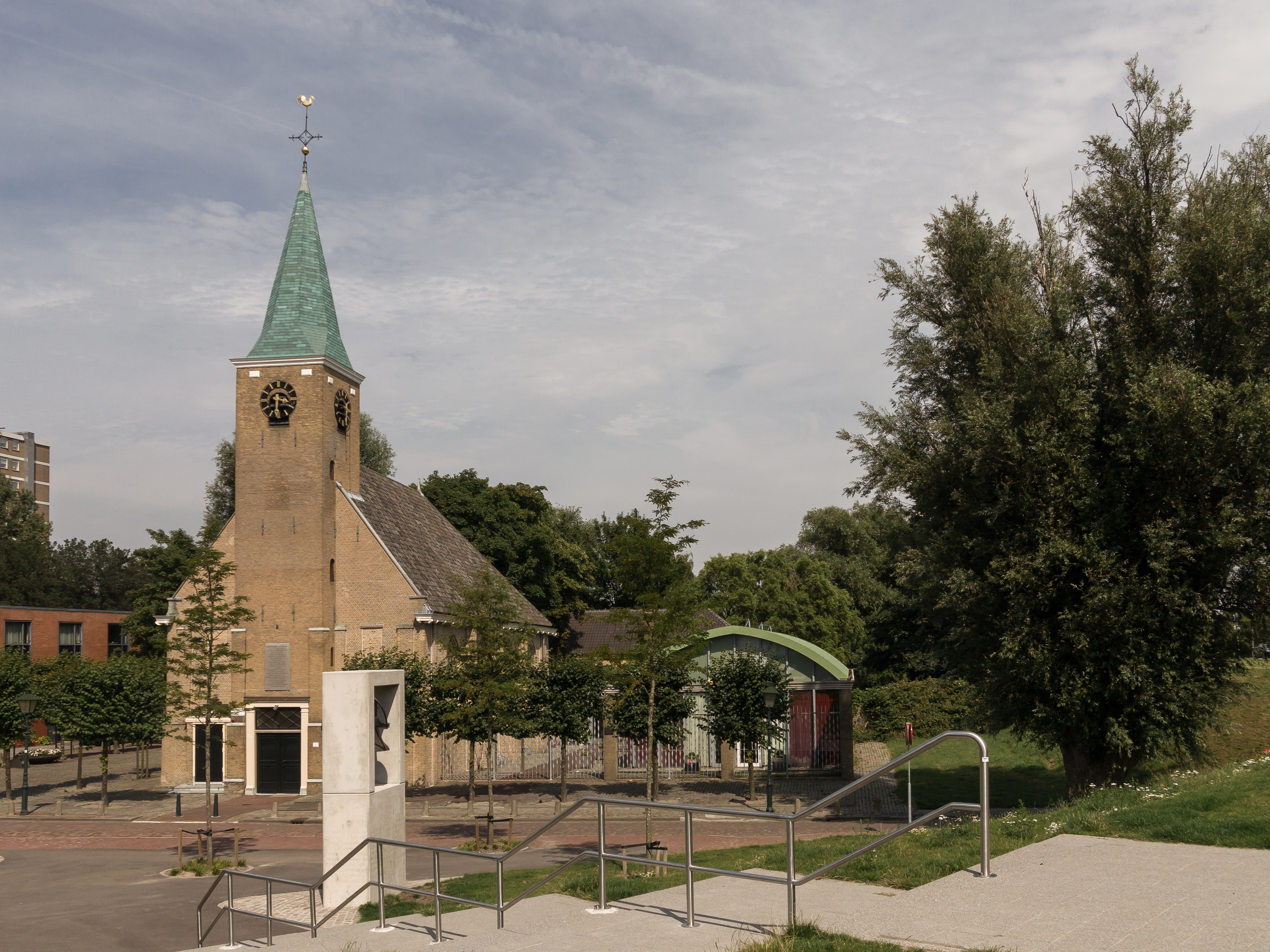 Hoogvliet, church: de Dorpskerk